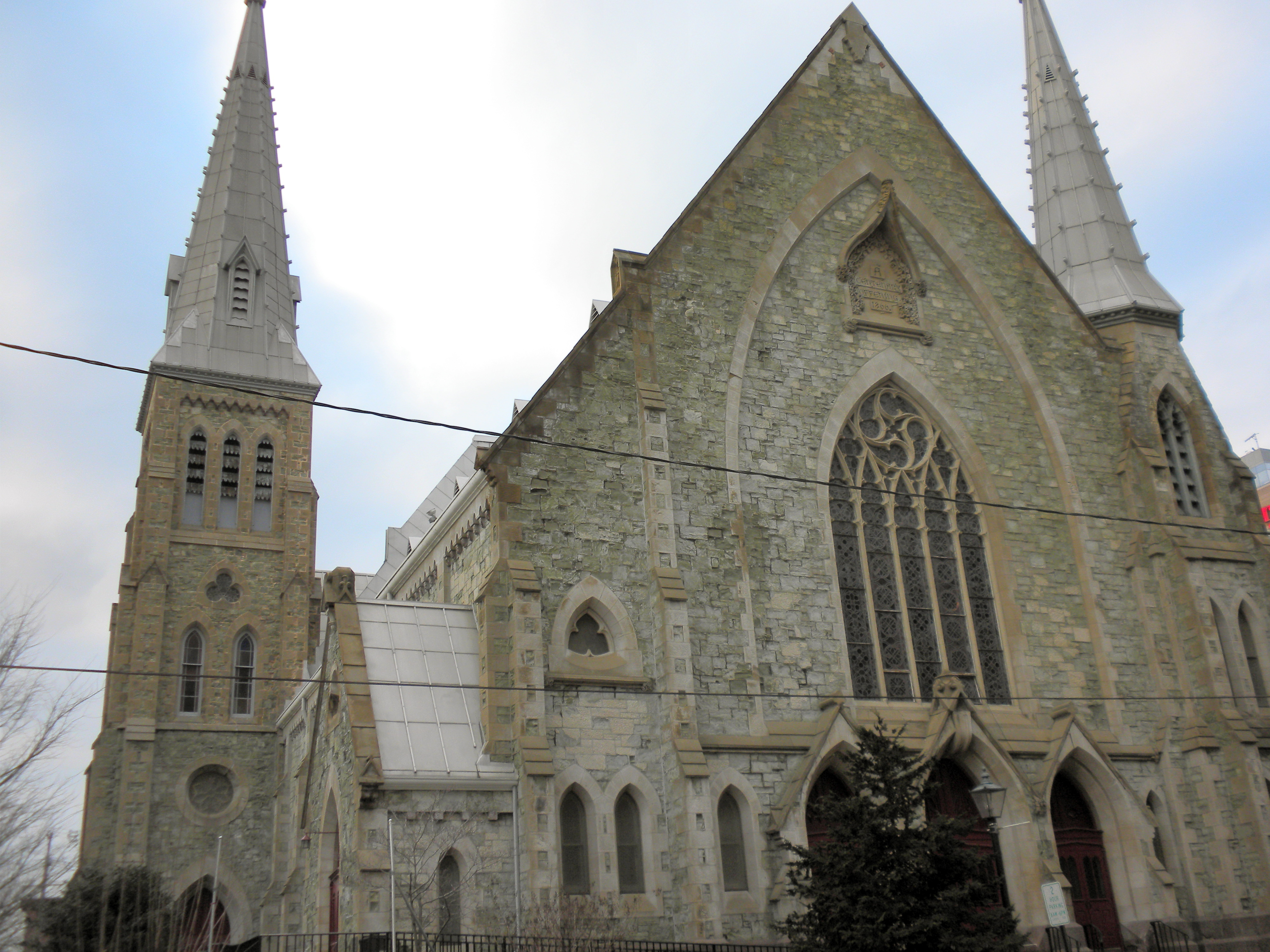 Grace United Methodist Church in Wilmington, Delaware. On the NRHP. 9th and West Sts.